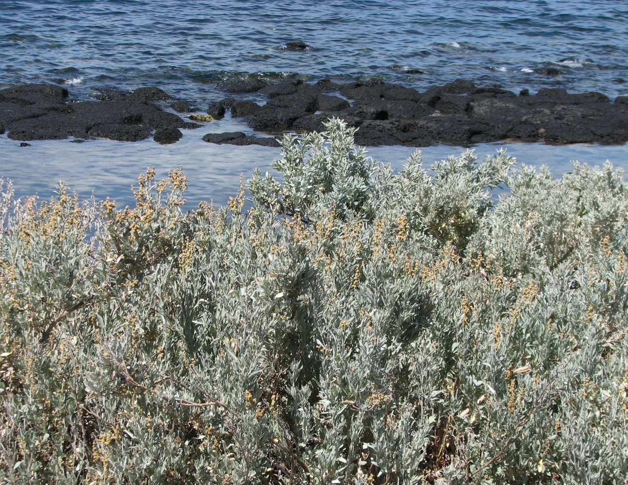 Atriplex cinerea Williamstown, Victoria, Australia